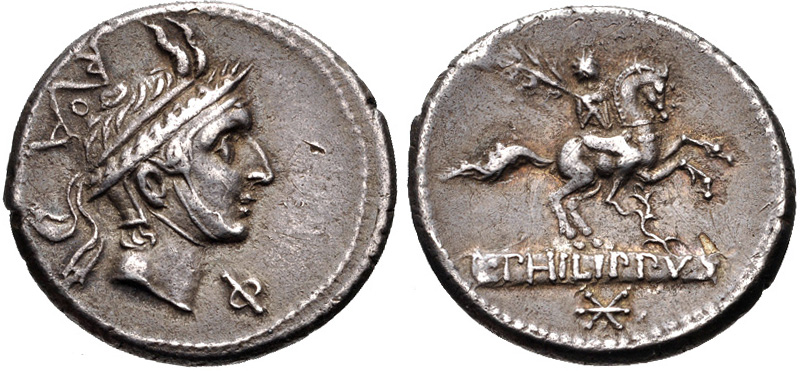 L. Marcius Philippus. 57 BC. AR Denarius (19mm, 3.86 g, 6h). Rome mint. Head of Philip V of Macedon right, wearing diademed royal Macedonian helmet with goat horns; ROMA monogram behind, Φ below chin / Equestrian statue right on inscribed tablet, with laurel branch; flower below horse; mark of value in exergue. Crawford 293/1; Sydenham 551; Marcia 12. Good VF, toned, minor mark in the right side of the field on the obverse. Ex Pat Coyle Collection. Though nearly 150 years removed from his interactions with the Roman Republic, the image of Philip V of Macedon was a clear reminder of Rome’s victories and gains in the Syrian war. Through the usual practice of puns on republican coins, the moneyer here utilized Philip to further allude to his own cognomen, Philippus.